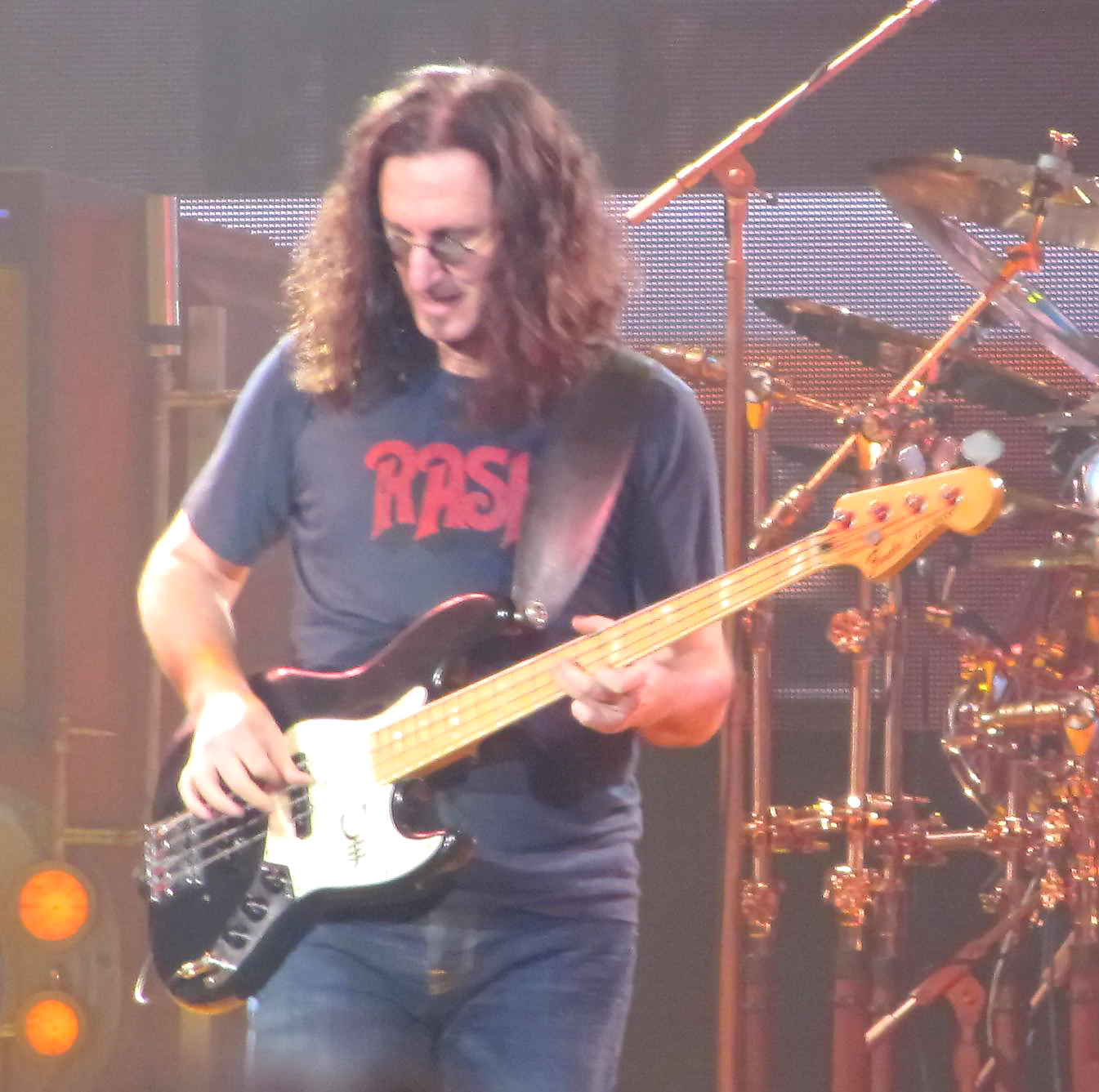 Geddy Lee playing at the Air Canada Centre for the Time Machine Tour.